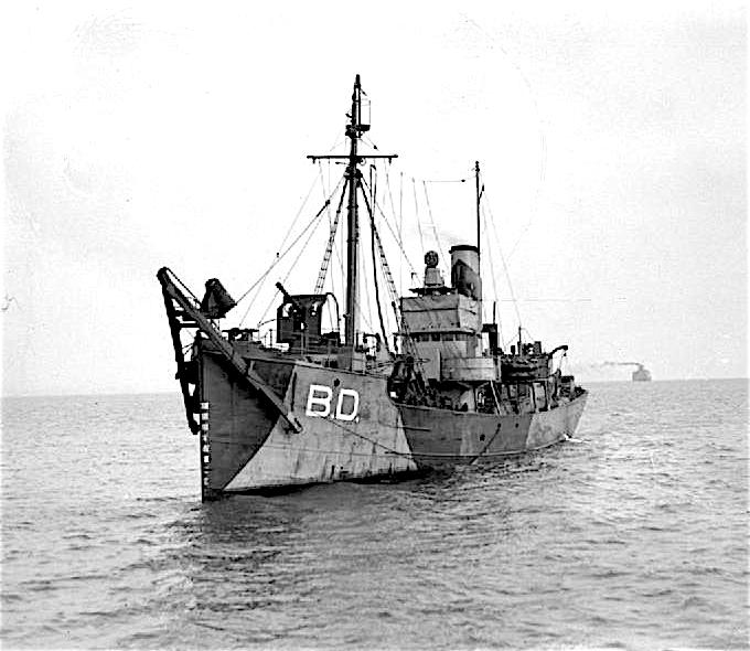 Hmt Ben Dearg Underway.